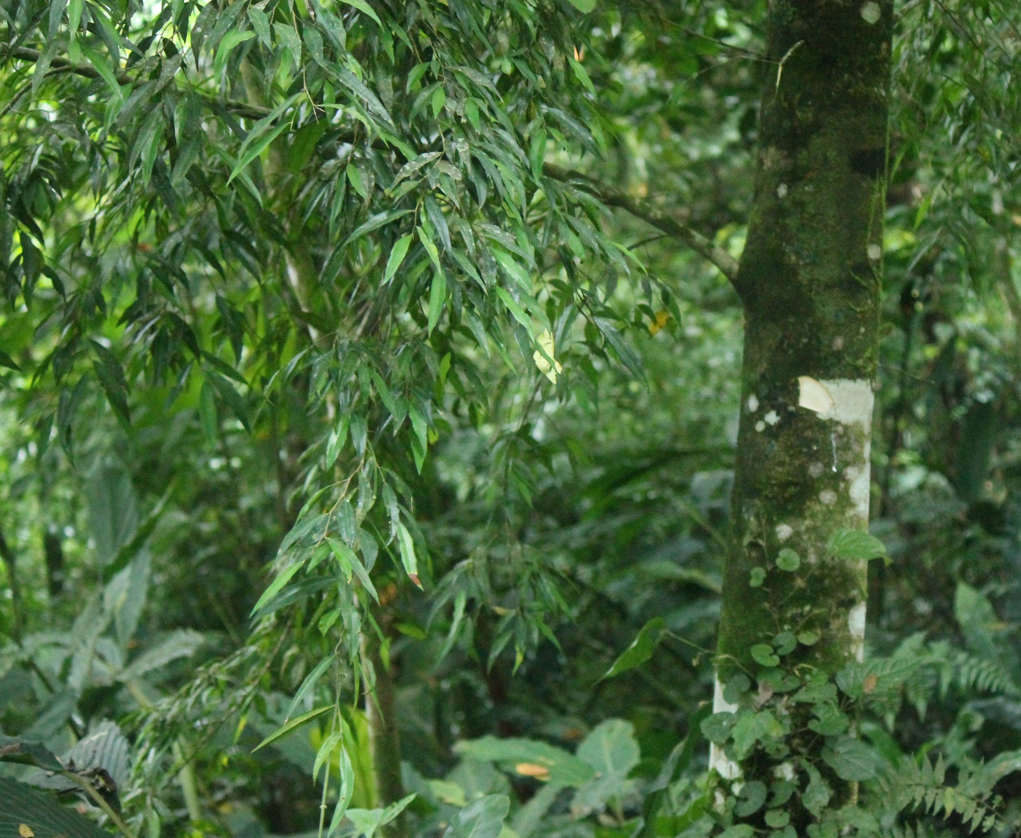 Ficus celebensis at Mount Masarang, North SulawesiBahasa Indonesia: Ficus celebensis di Gunung Masarang, Sulawesi Utara